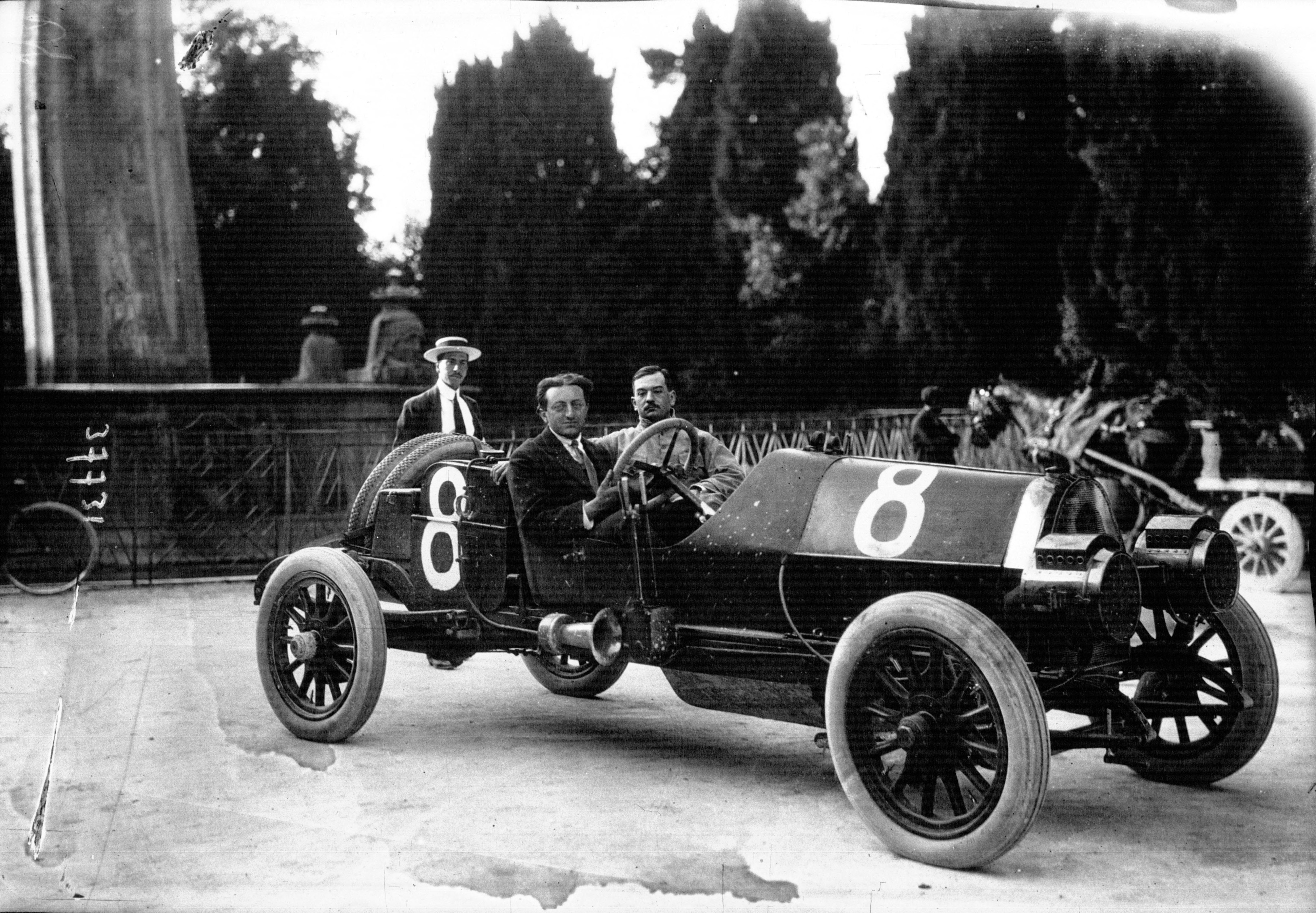 Giovanni Marsaglia in his Aquila Italiana at the 1913 Targa Florio.